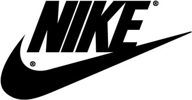 Depracated logo of Nike, Inc.